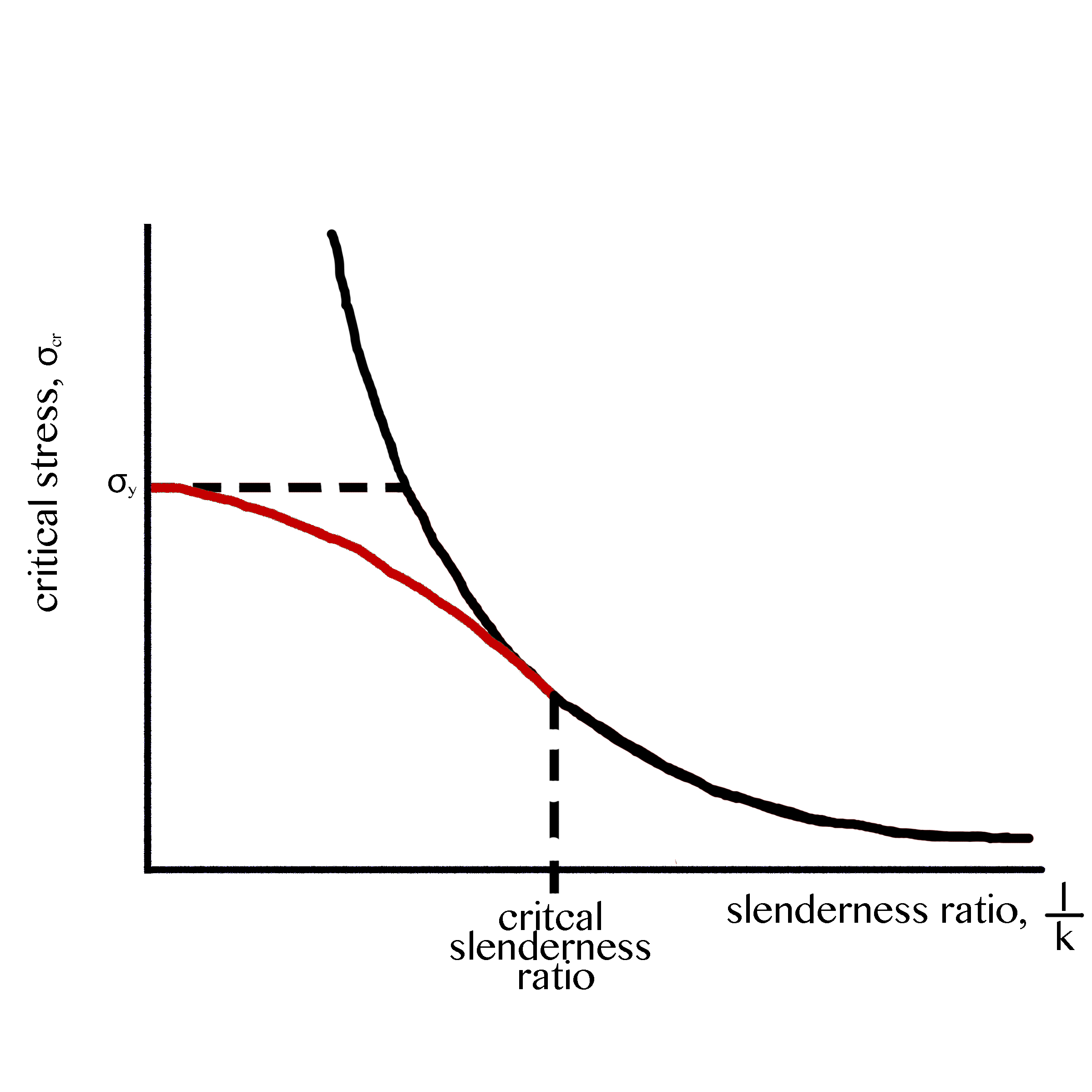 Plot of Euler and Johnson curves with the transition point